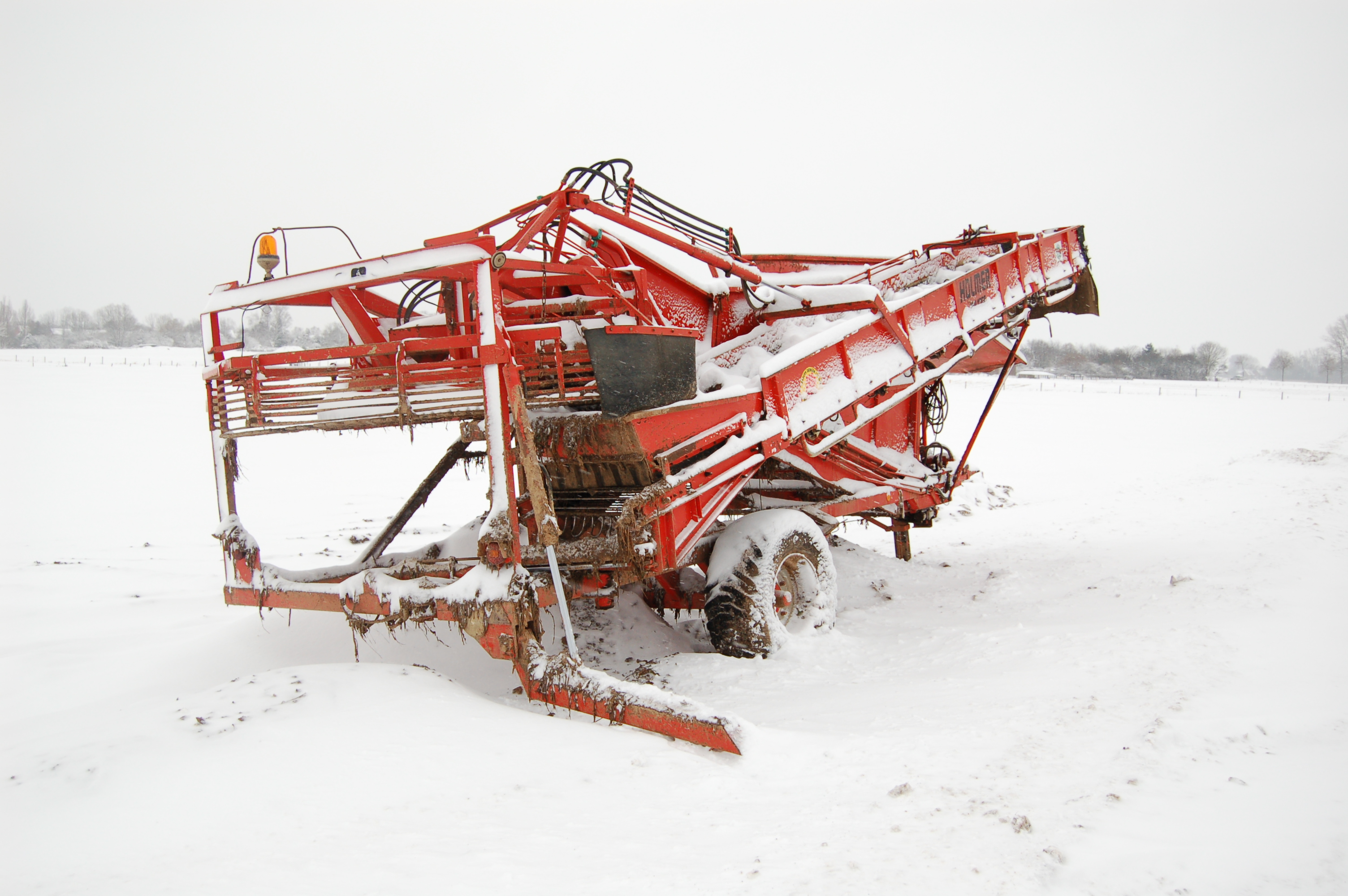 Beet cleaner loader Holmer RRL 1200, rear end